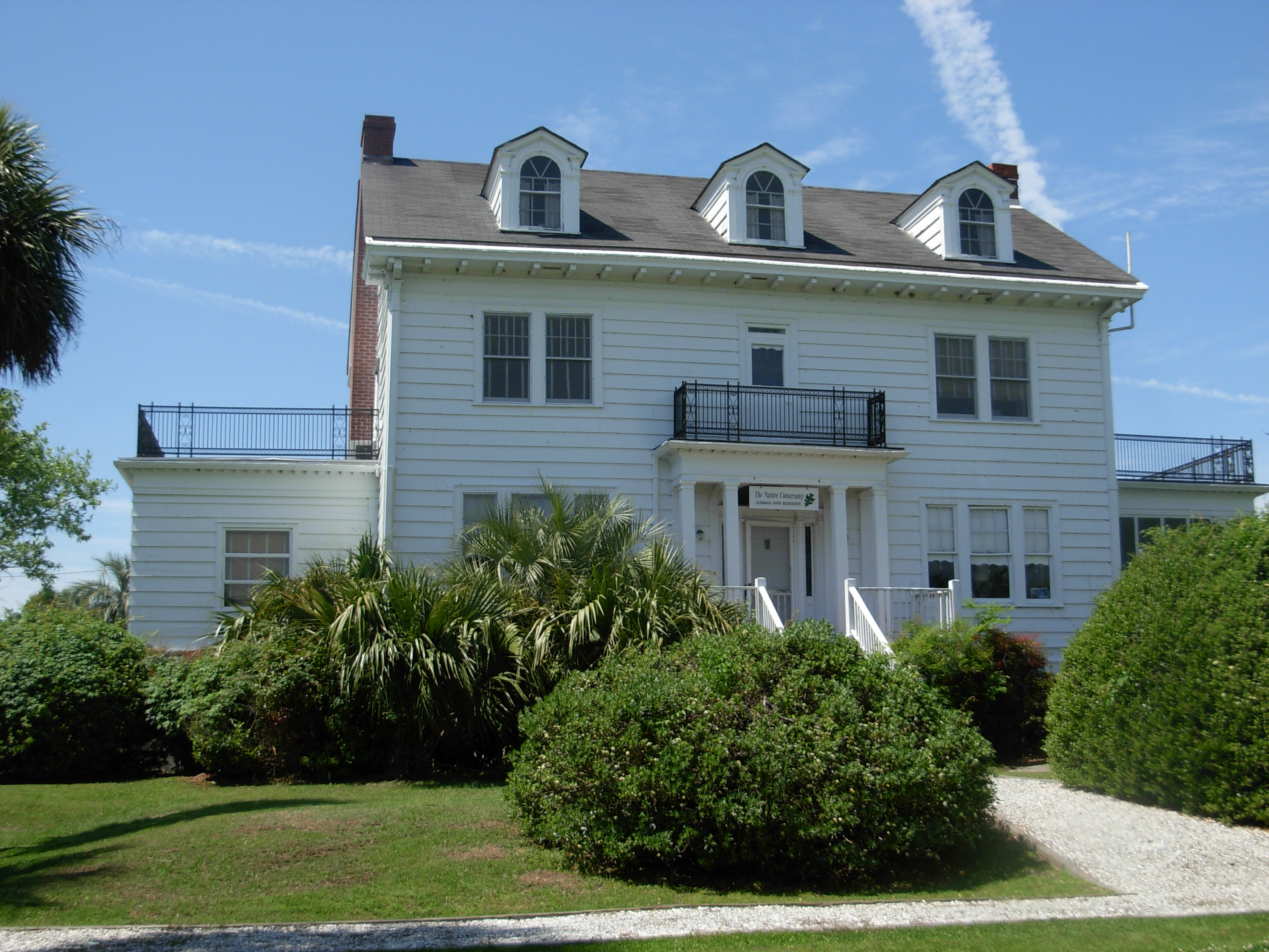 Butler Plantation, Butler Island, Darien, Georgia, U.S. This is the Huston house[1]